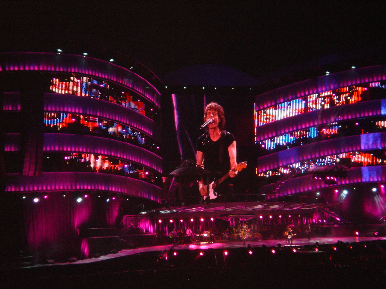 Stones on stage during Bigger Bang Tour, Twickenham, 2006